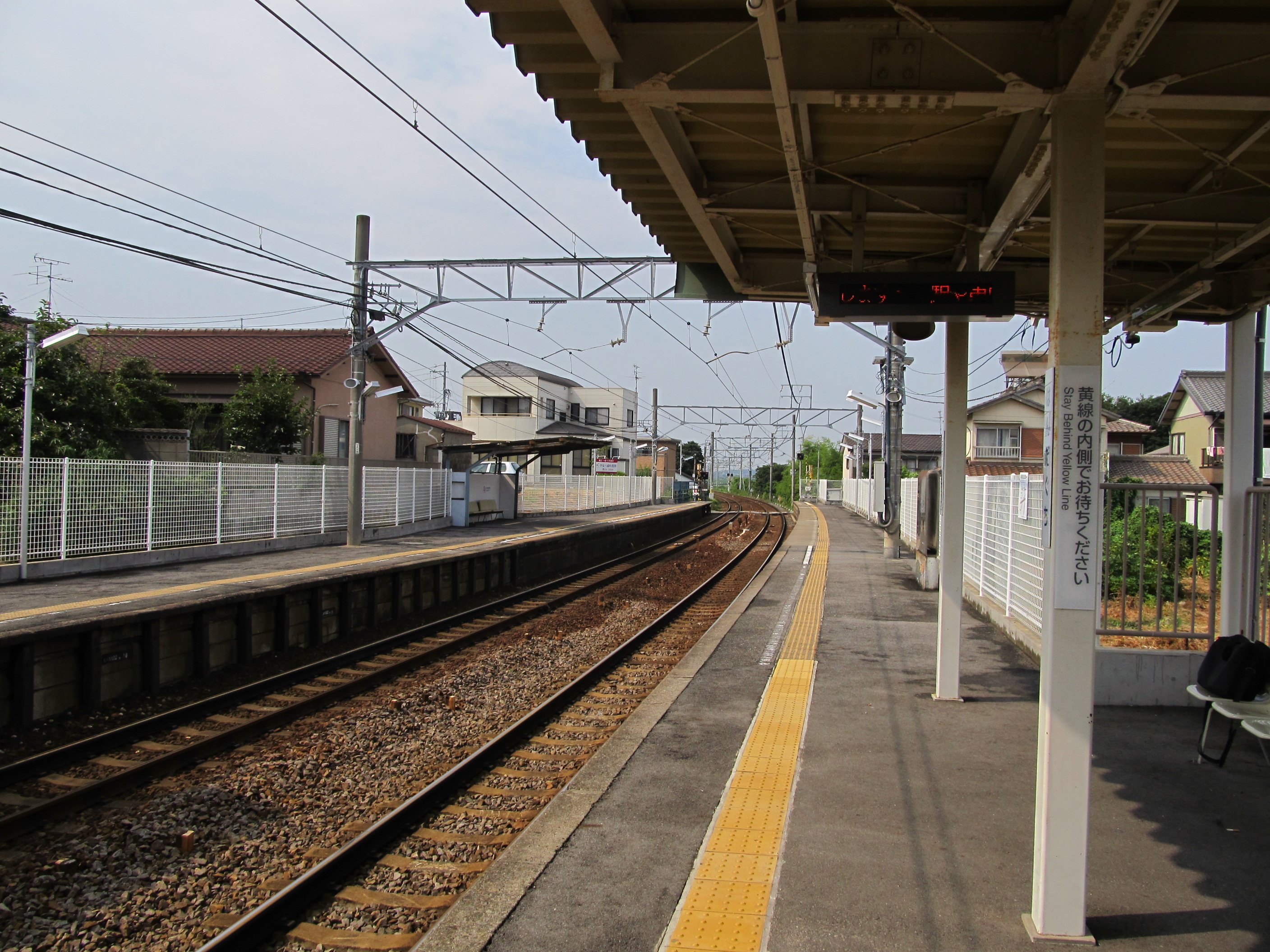 Nagoya Railroad Kowa Line Handaguchi Station Platform